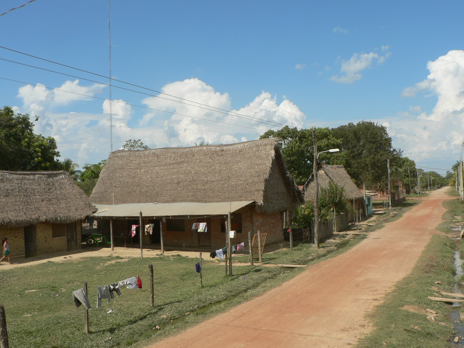 A street in Santa Rosa del Yacuma, Beni, Bolivia.